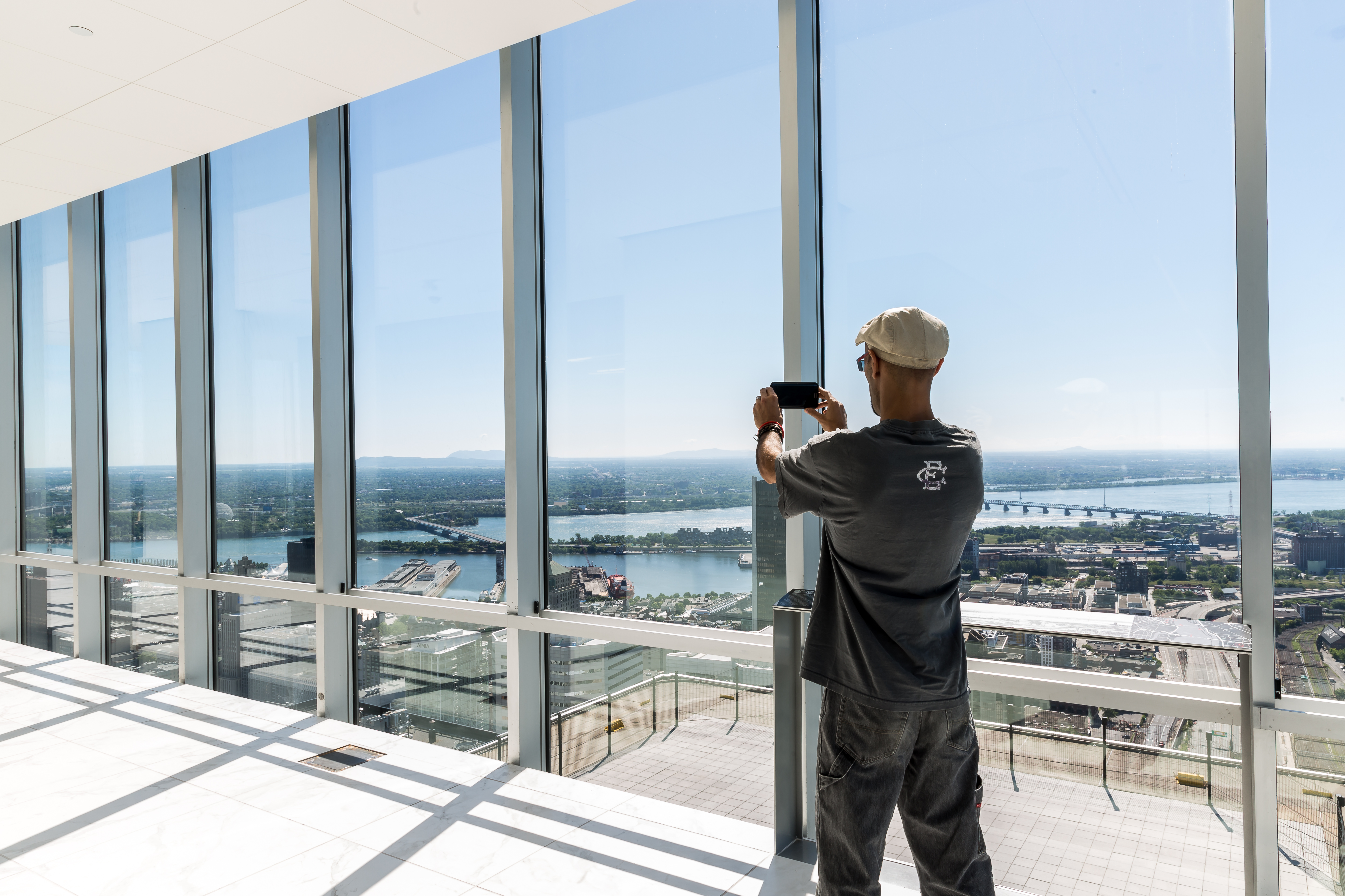 C. Cimon Parent